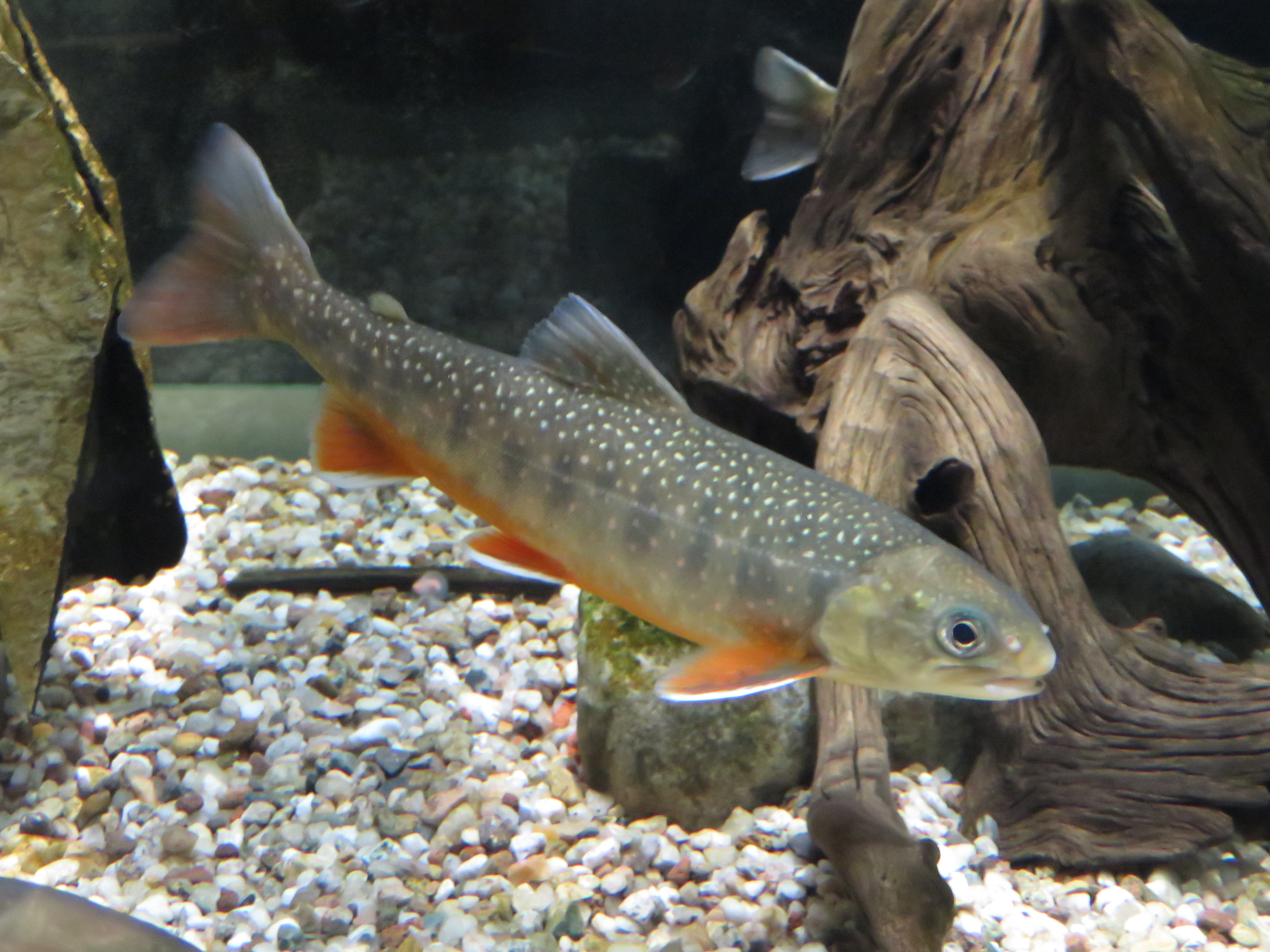 Arctic char (Salvelinus alpinus) in aquarium. Lake Inari population. (Arctic Centre - University of Lapland)